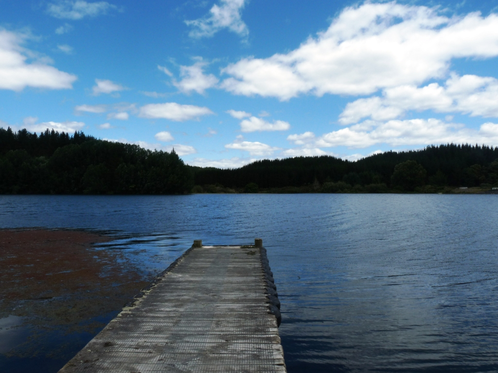 Small Jetty on Lake Aniwhenua, a man-made lake by a nearby dam.